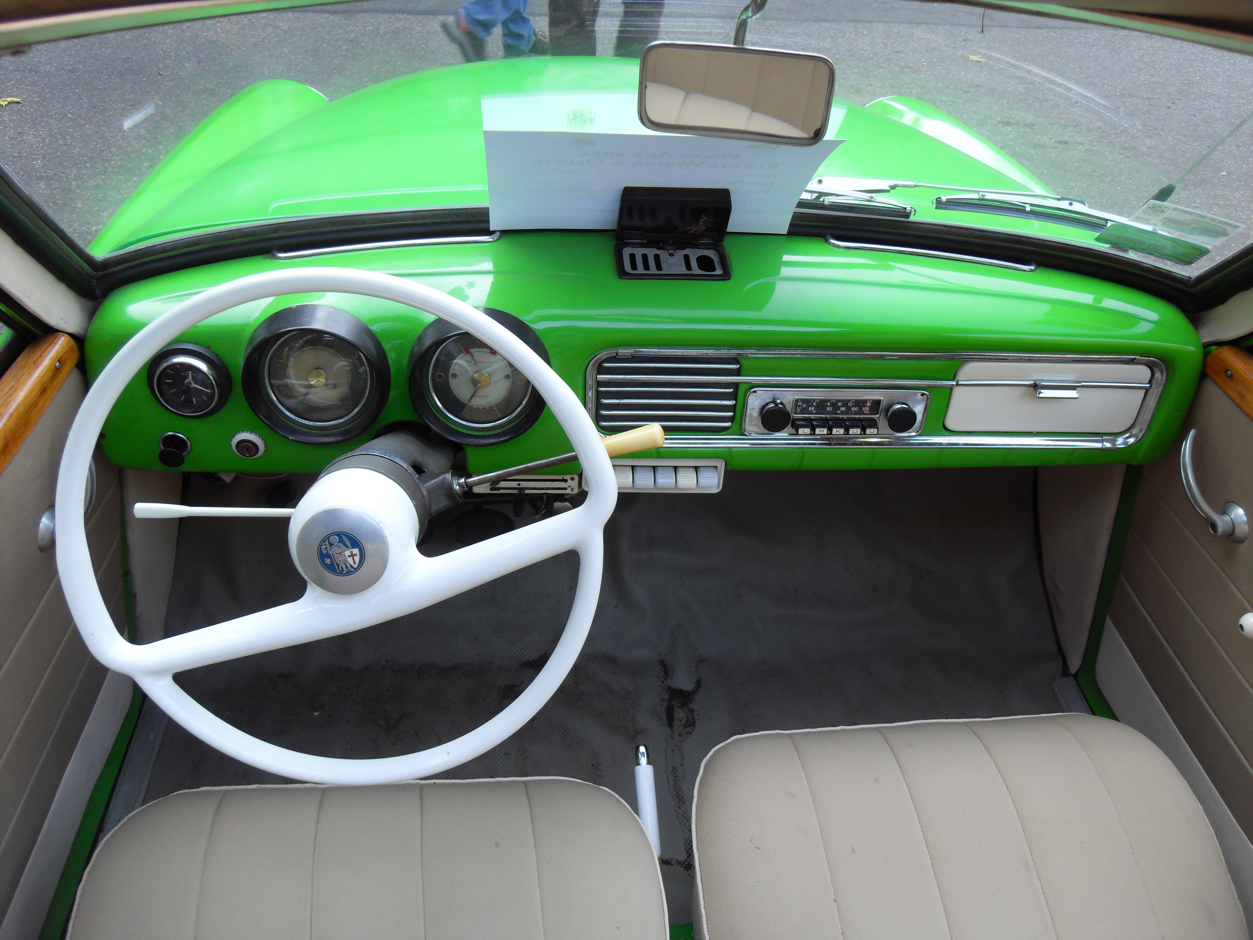 Wartburg 311 de LUXE (manufactured in 1962), interior.